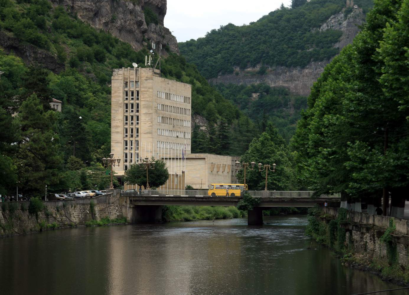 Chiatura, Georgia